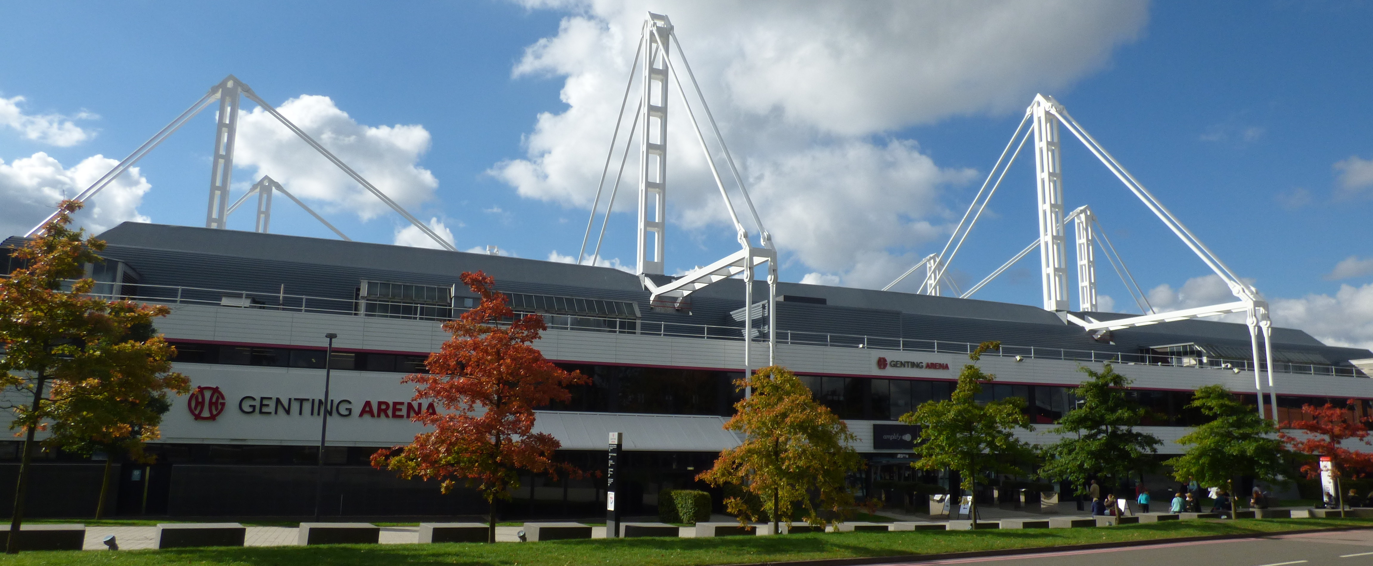 Genting Arena (previously the NEC Arena, then the LG Arena) pictured in October 2016.